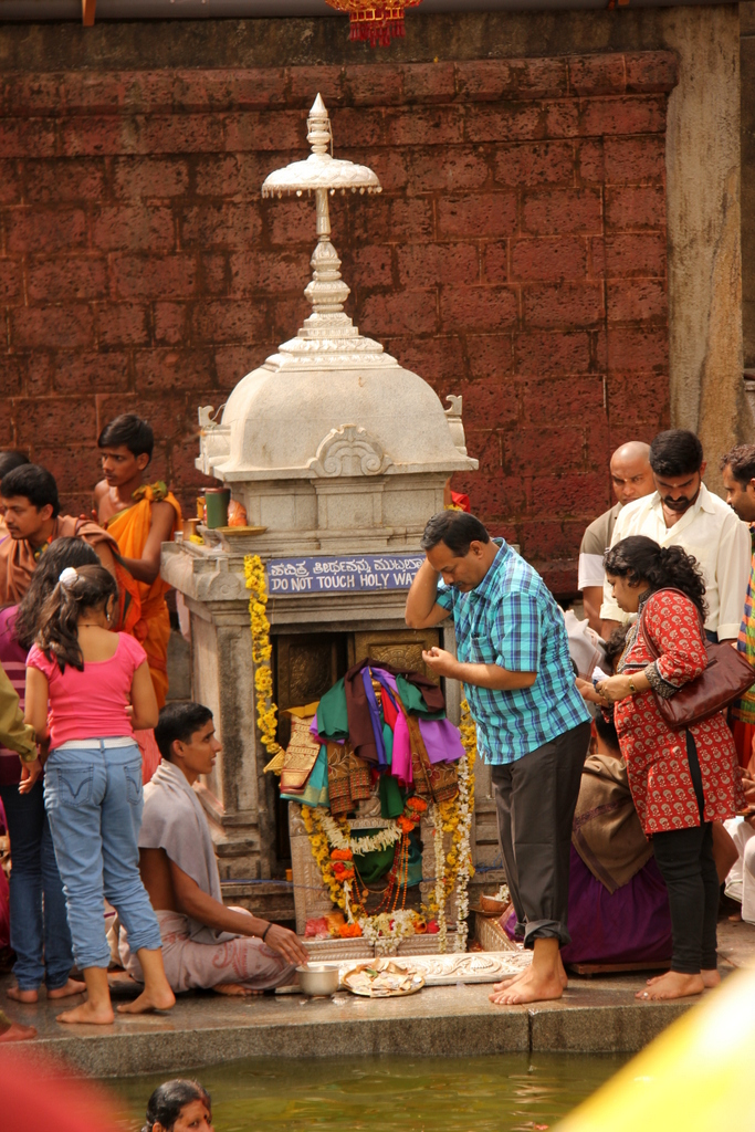 Talakaveri - Where river Kaveri starts